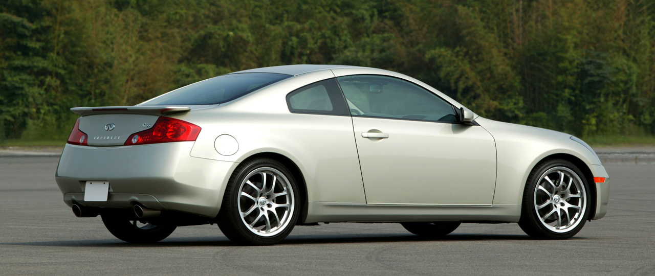 '05 Infiniti G35 Coupe